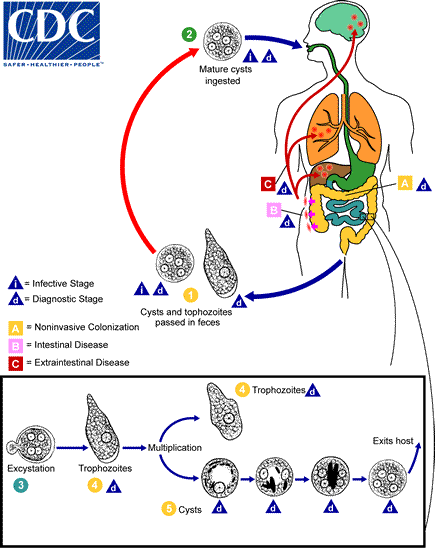 Cysts and trophozoites are passed in feces The Number 1. Cysts are typically found in formed stool, whereas trophozoites are typically found in diarrheal stool. Infection by Entamoeba histolytica occurs by ingestion of mature cysts The Number 2 in fecally contaminated food, water, or hands. Excystation The Number 3 occurs in the small intestine and trophozoites The Number 4 are released, which migrate to the large intestine. The trophozoites multiply by binary fission and produce cysts The Number 5, and both stages are passed in the feces The Number 1. Because of the protection conferred by their walls, the cysts can survive days to weeks in the external environment and are responsible for transmission. Trophozoites passed in the stool are rapidly destroyed once outside the body, and if ingested would not survive exposure to the gastric environment. In many cases, the trophozoites remain confined to the intestinal lumen (The Letter A: noninvasive infection) of individuals who are asymptomatic carriers, passing cysts in their stool. In some patients the trophozoites invade the intestinal mucosa (The Letter B: intestinal disease), or, through the bloodstream, extraintestinal sites such as the liver, brain, and lungs (The Letter C: extraintestinal disease), with resultant pathologic manifestations. It has been established that the invasive and noninvasive forms represent two separate species, respectively E. histolytica and E. dispar. These two species are morphologically indistinguishable unless E. histolytica is observed with ingested red blood cells (erythrophagocystosis). Transmission can also occur through exposure to fecal matter during sexual contact (in which case not only cysts, but also trophozoites could prove infective).